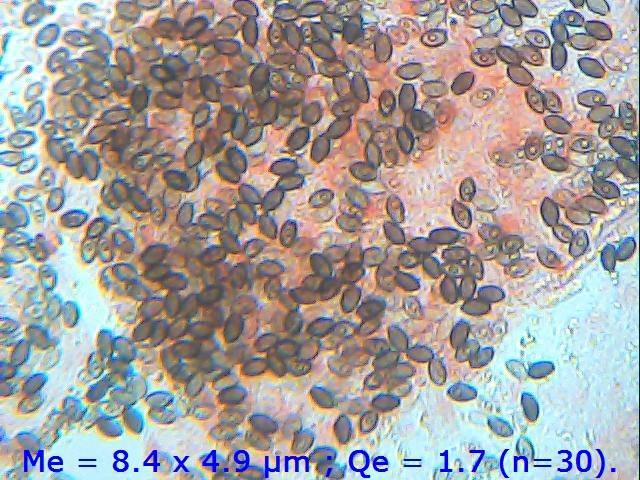 Coprinellus disseminatus (Pers.: Fries) J. E. Lange Image location: Parque de Monsanto, Lisboa, Portugal Recognized by sight For more information about this, see the observation page at Mushroom Observer.